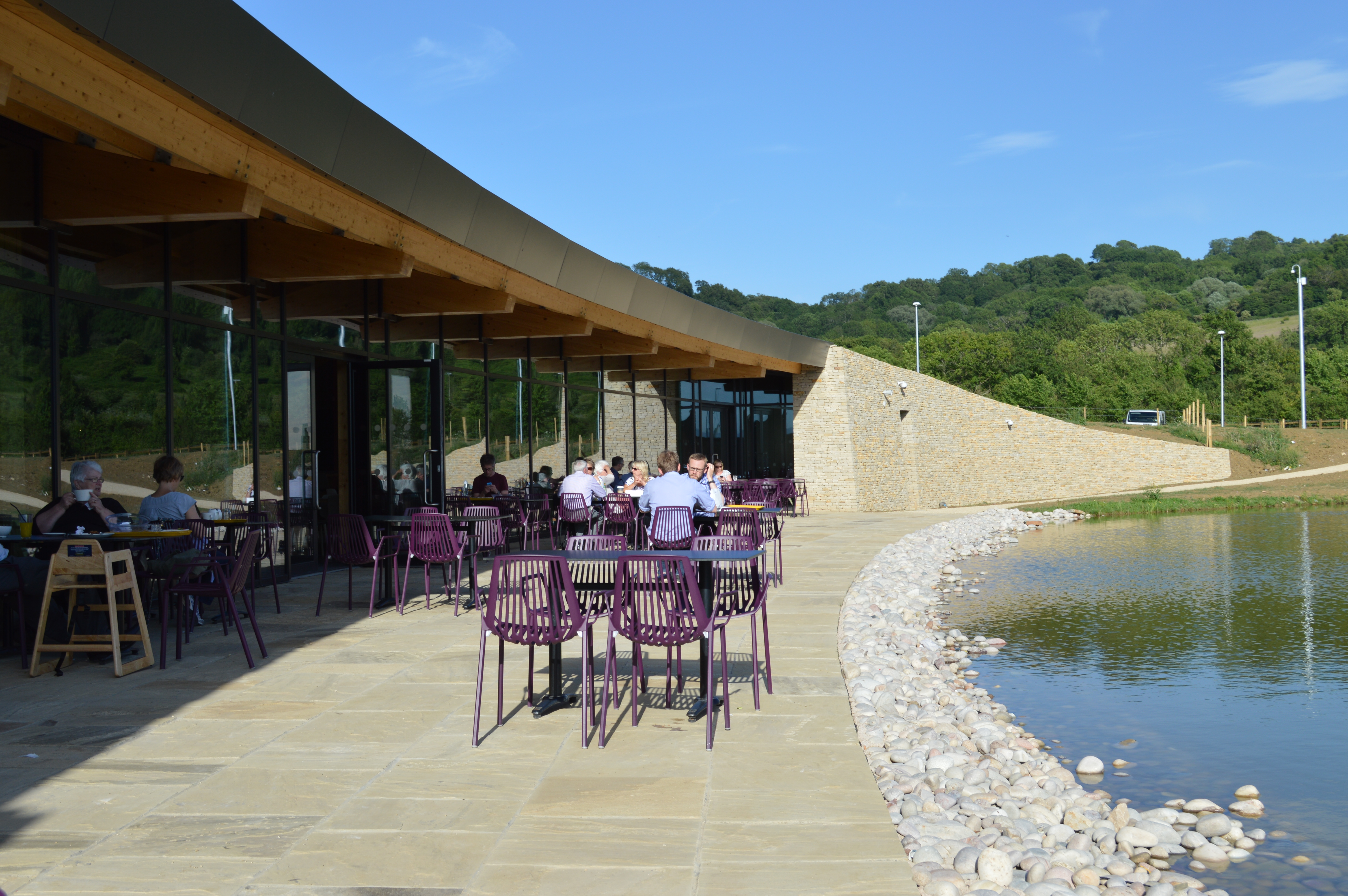 The seating area by the pond at Gloucester Services, southbound on the M5 motorway.